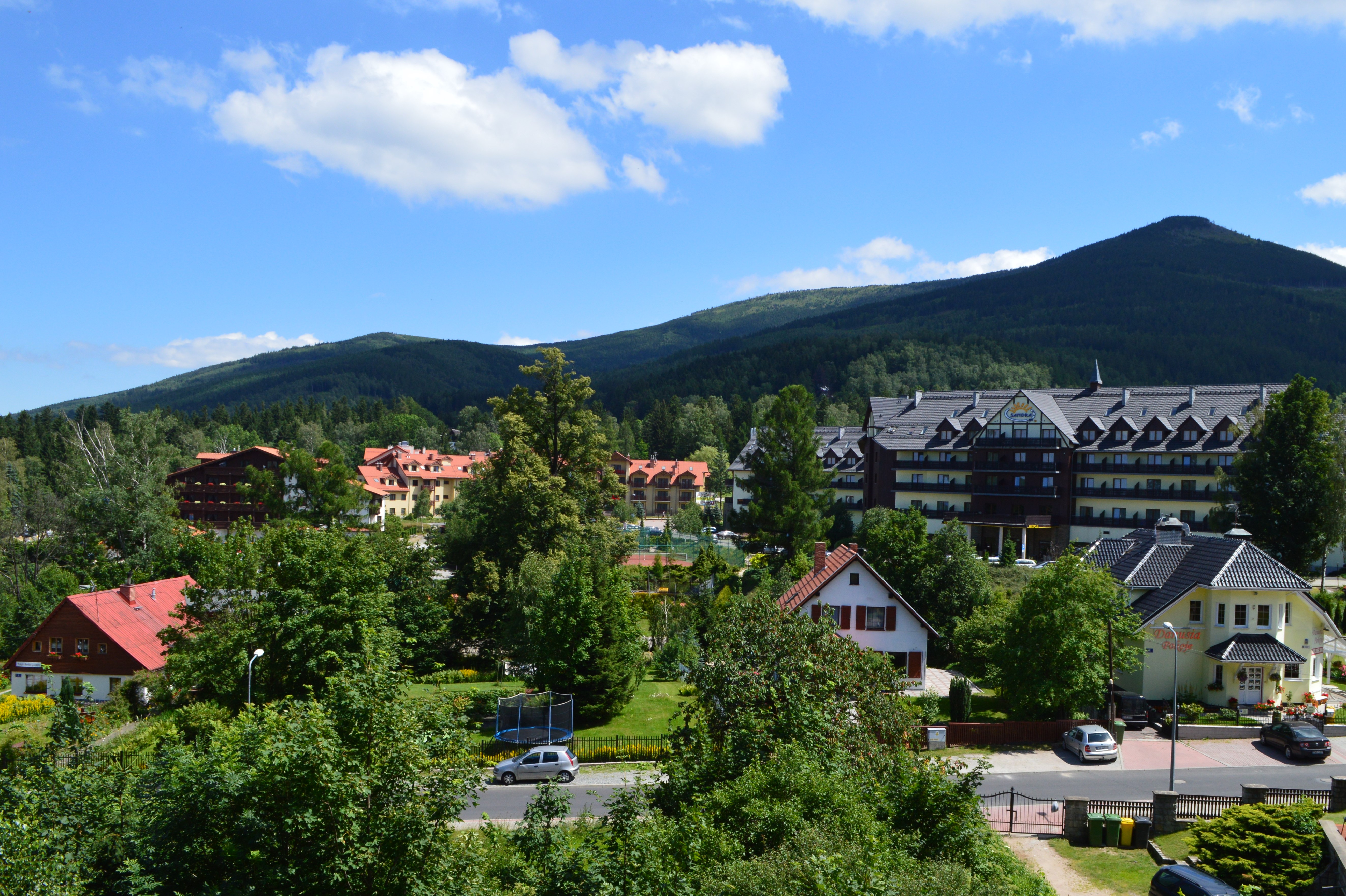 Karpacz is a spa town and ski resort in Jelenia Góra County, Lower Silesian Region, south-western Poland, and one of the most important centres for mountain hiking and skiing, including ski jumping. A famous ‘landmark’ in Karpasz is the Vang stave church, a four-post single-nave stave church, originally built around 1200, which was bought by the Prussian King and transferred from Vang in the Valdres region of Norway and re-erected in 1842 in Brückenberg near Krummhübel in Silesia, now Karpacz in the Karkonosze Mountains of Poland. The Scotch Mist Gallery contains many photographs of historic buildings, monuments and memorials of Poland.